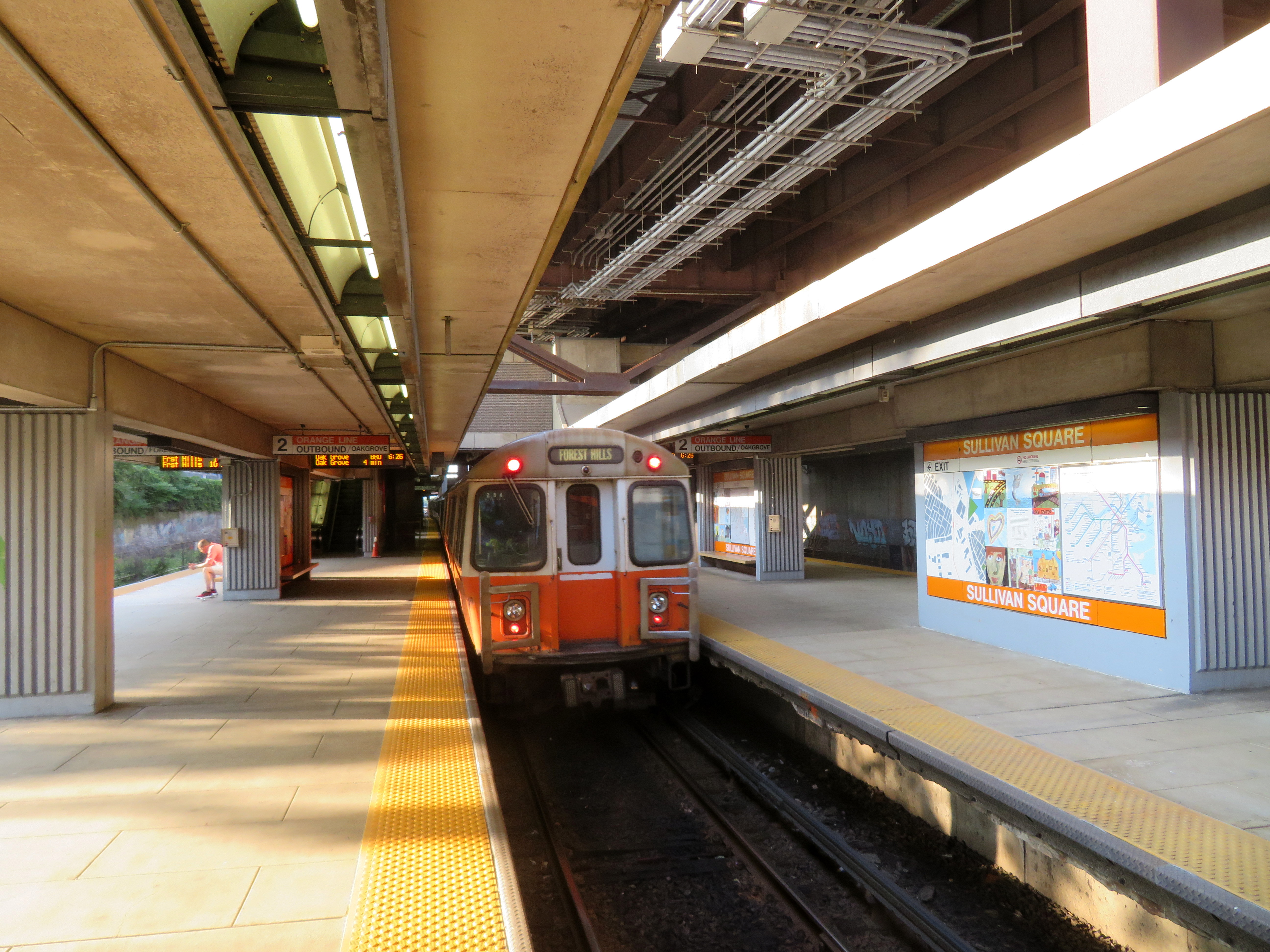 An outbound train leaves Sullivan Square station in July 2019